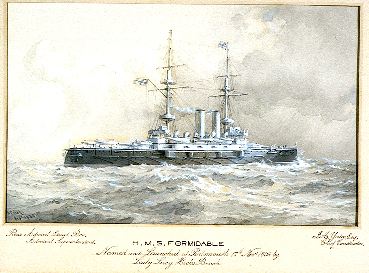 H.M.S. Formidable Named and Launched at Portsmouth 17th Novr 1898 by Lady Lucy Hicks Beach. Rear Admiral Ernest Rice, Admiral Superintendent. J A Yates Esq, Chief Constructor Heightened with white.; Signed by artist.